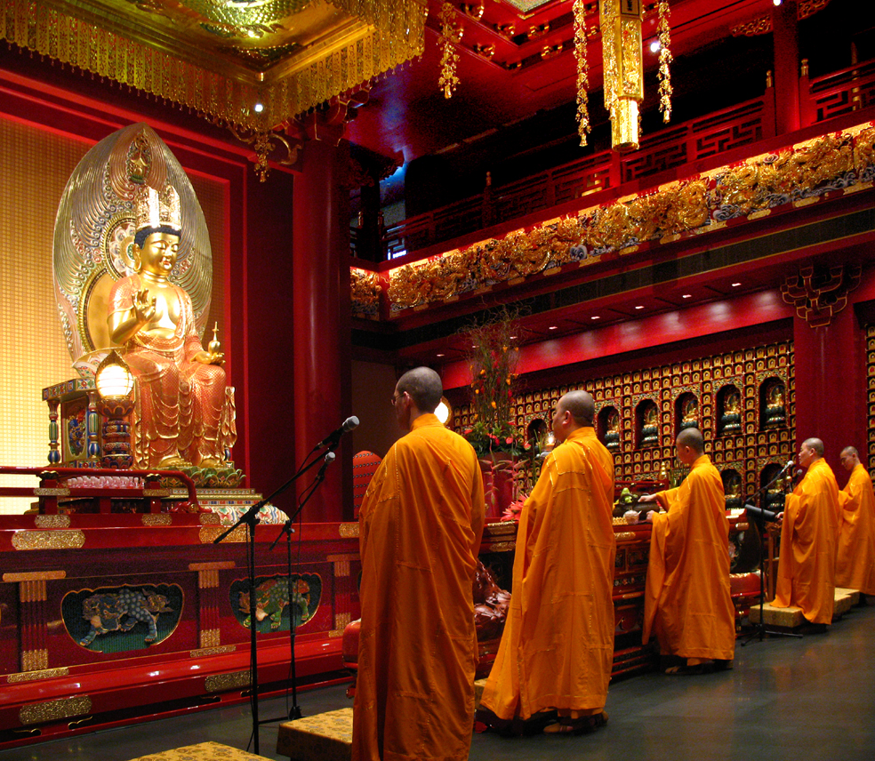 Maitreya Bodhisattva statue and Buddhist monks in the Hundred Dragons Hall. Buddha Tooth Relic Temple, Singapore.